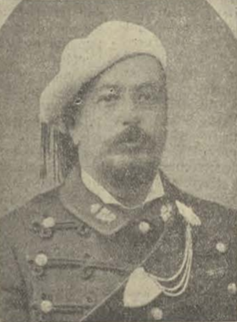 Francisco Cavero